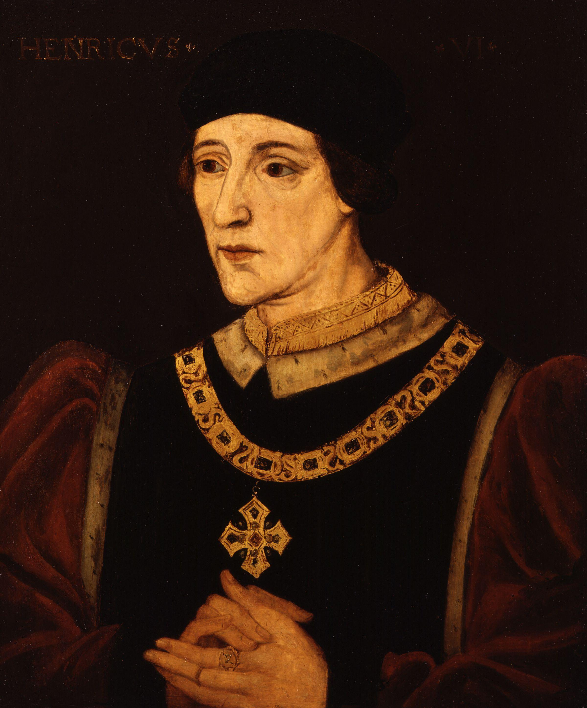 King Henry VI. Transferred to NPG in 1879. See source website for more details. All images in this batch have an unknown author, but there is strong evidence it was first published before 1923 (based mainly on the NPG's estimated date of the work).